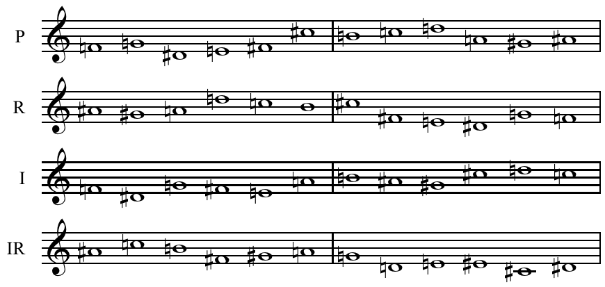 Basic row forms from Stravinsky's Requiem Canticles: P R I IR. Created by Hyacinth (talk) 23:46, 19 June 2009 using Sibelius 5.